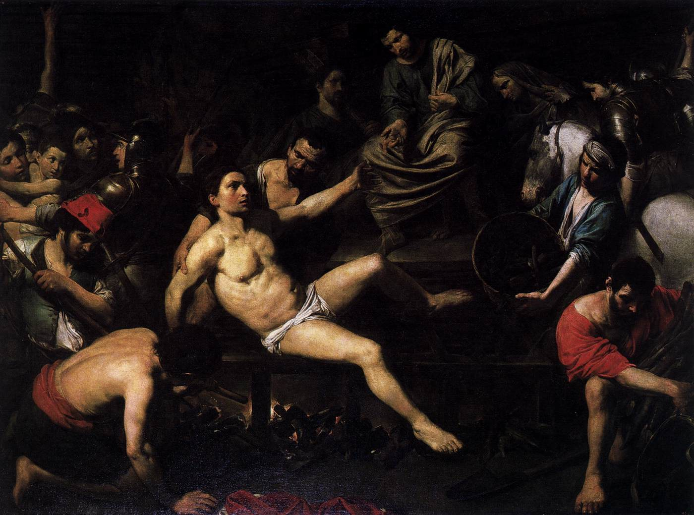 "Martyrdom of St Lawrence", Oil on canvas, 195 x 261 cm Museo del Prado, Madrid